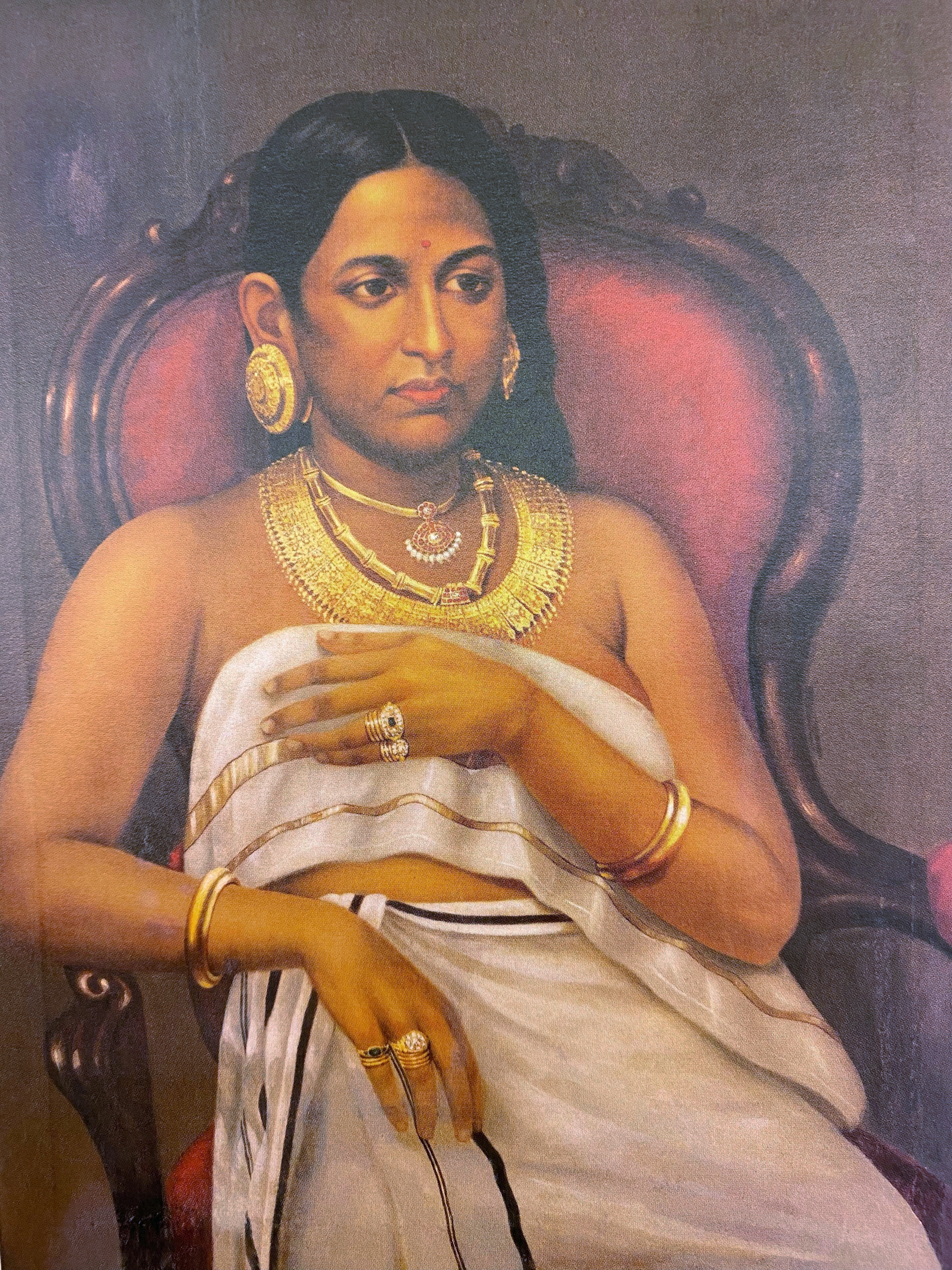 Portrait of Princess Bharani Thirunal Rani Parvathi Bayi. Sister of Rani Lakshmi Bayi. Painting often wrongly known by the name 'Reluctant Princess'